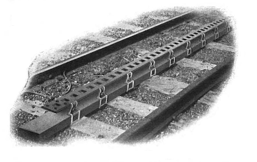 Rack rail for the Morgan system of rack railroad, widely used in the early 20th century in mines with steep grades.